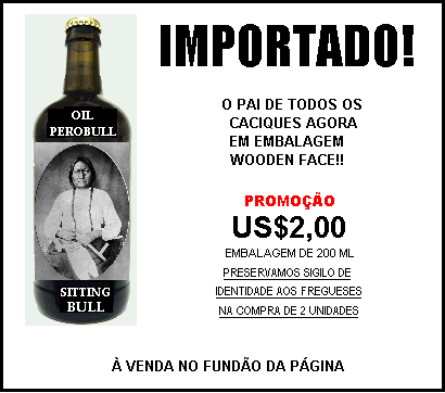 'Perobull oil' humor artwork to wiki-pt. Sitting Bull image from File:Tatanka Lyotake.jpg